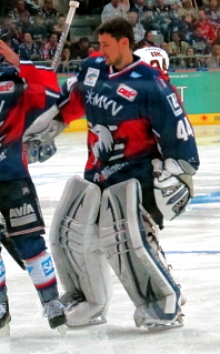 Dennis Endras, german ice hockey player, goaltender